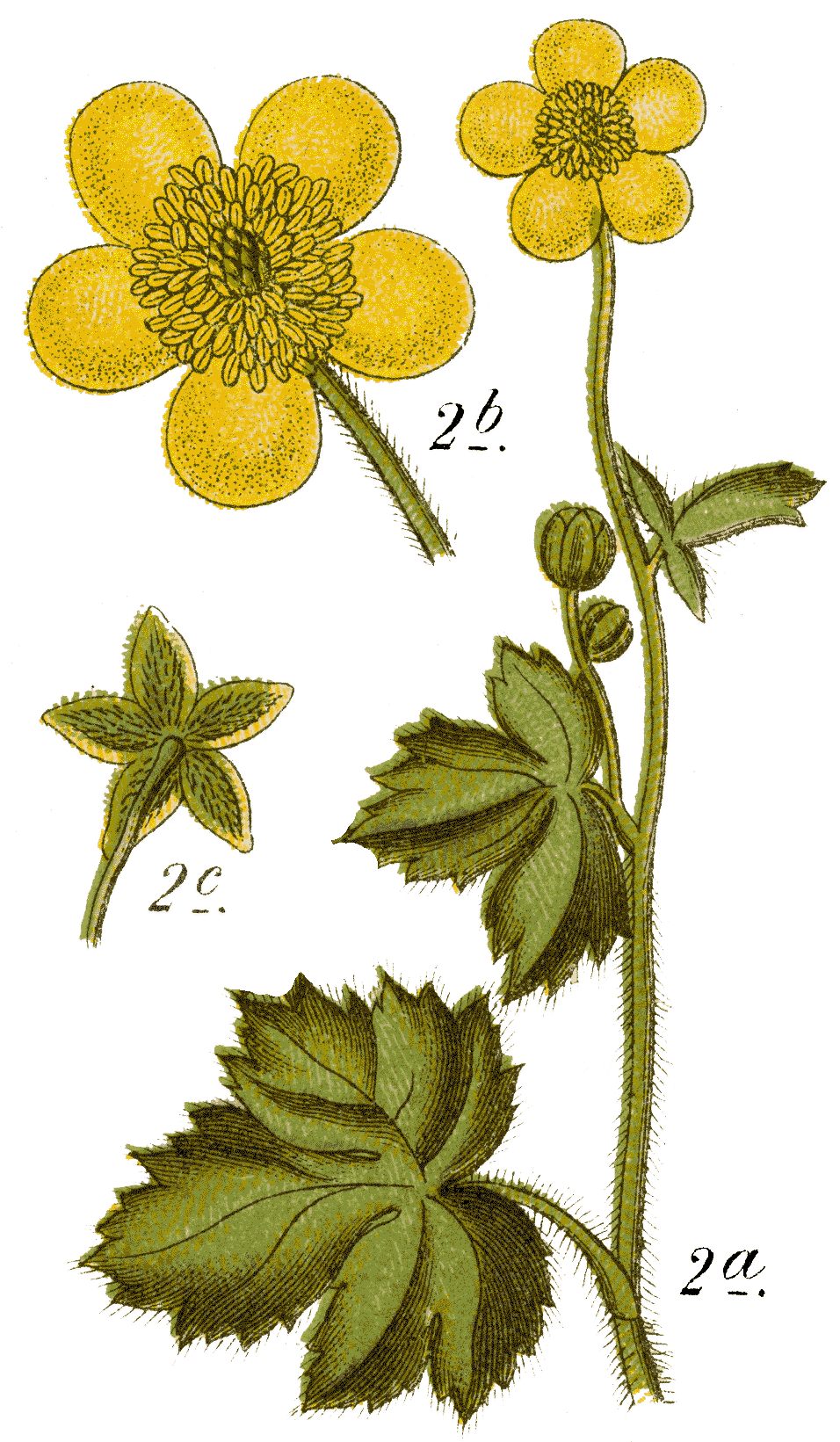 Ranunculus lanuginosus from Deutschlands Flora in Abbildungen (1796), part of plate 48